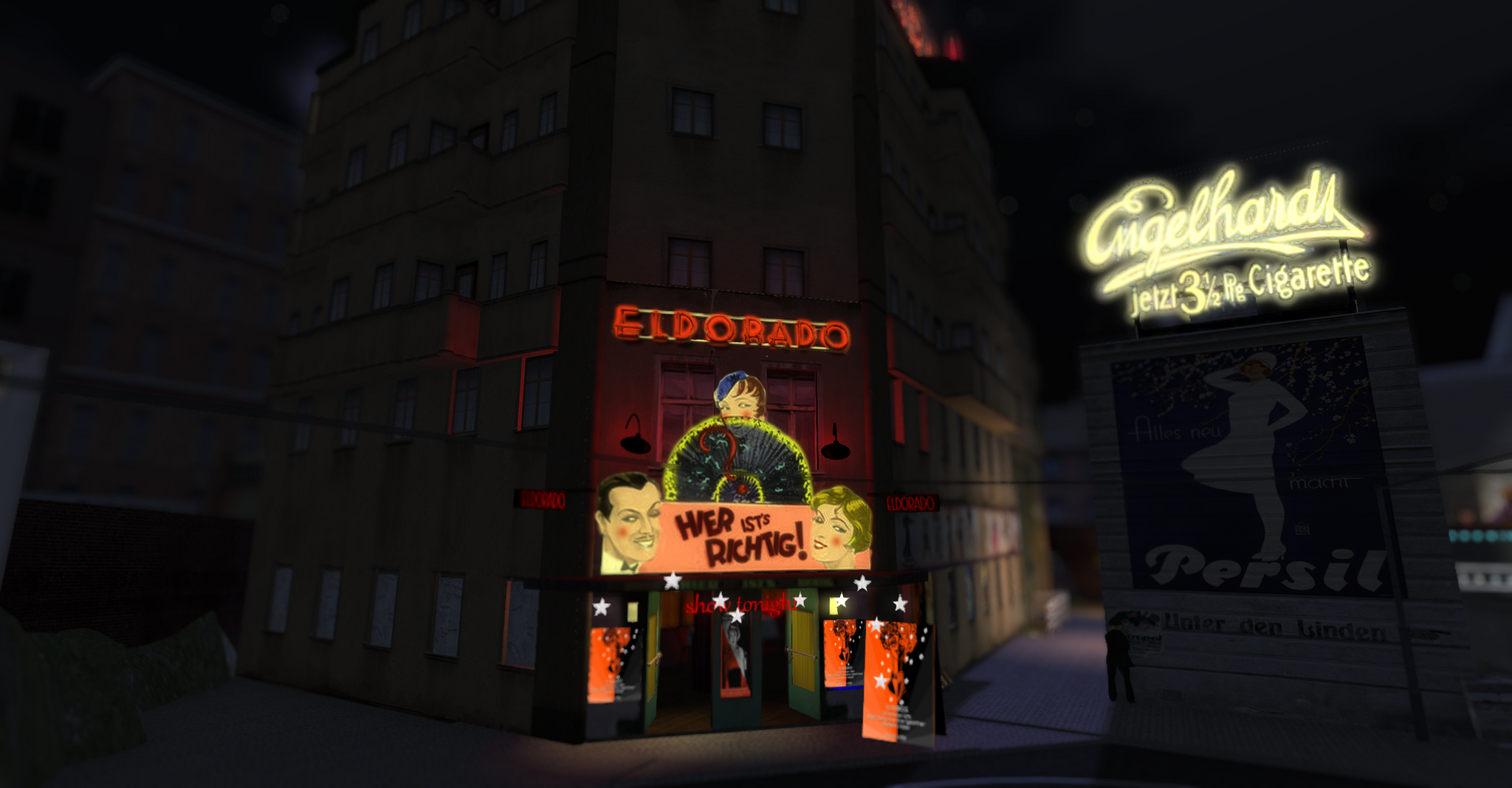 Picture taken in the 1920s Berlin Project, a historical recreation build by Jo Yardley in the virtual online world called Second Life. Via an avatar account, users from all over the world get to explore this city during its so called Golden Age.